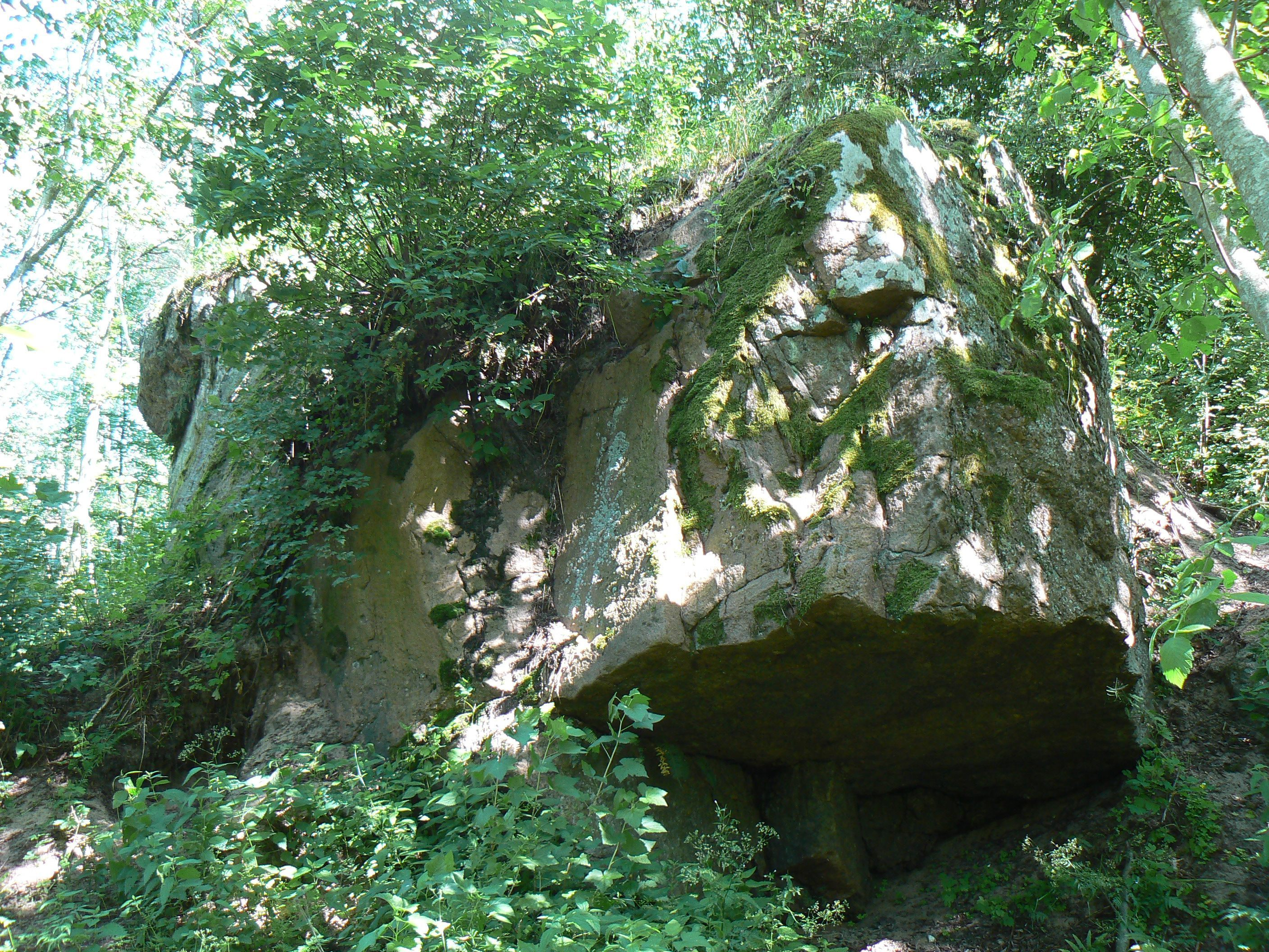 Leetse Lodukivi glacial erratic in Estonia